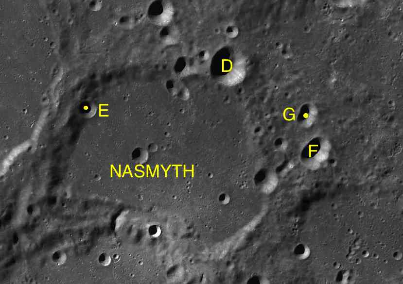 Part of the chart LAC-124 used for the presentation